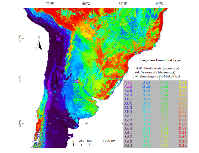 EFTs de Sudamérica